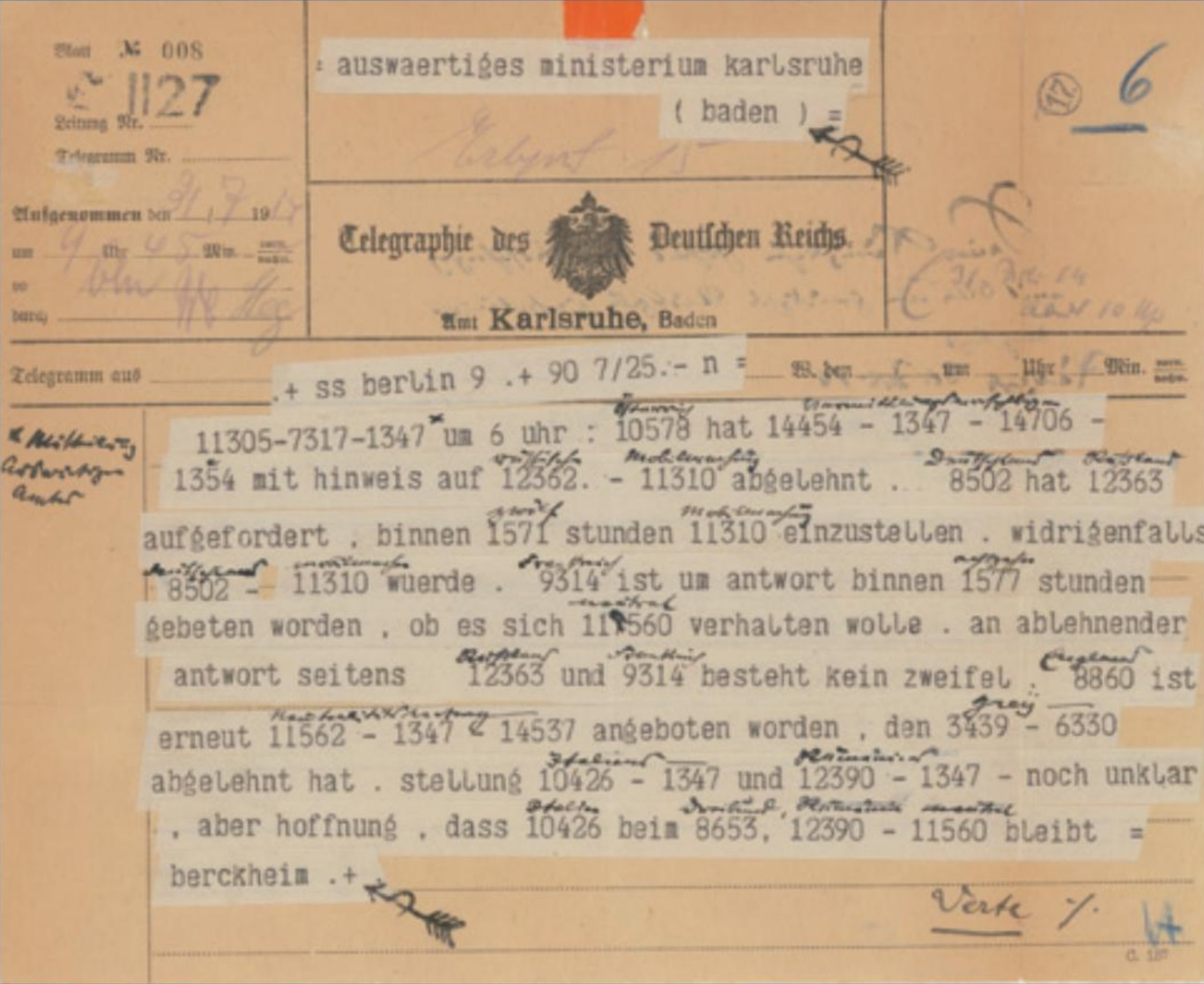 Cypher telegram informing the Gouvernment of the Great-Duchy of Baden about the immediate outbreak of World War I.